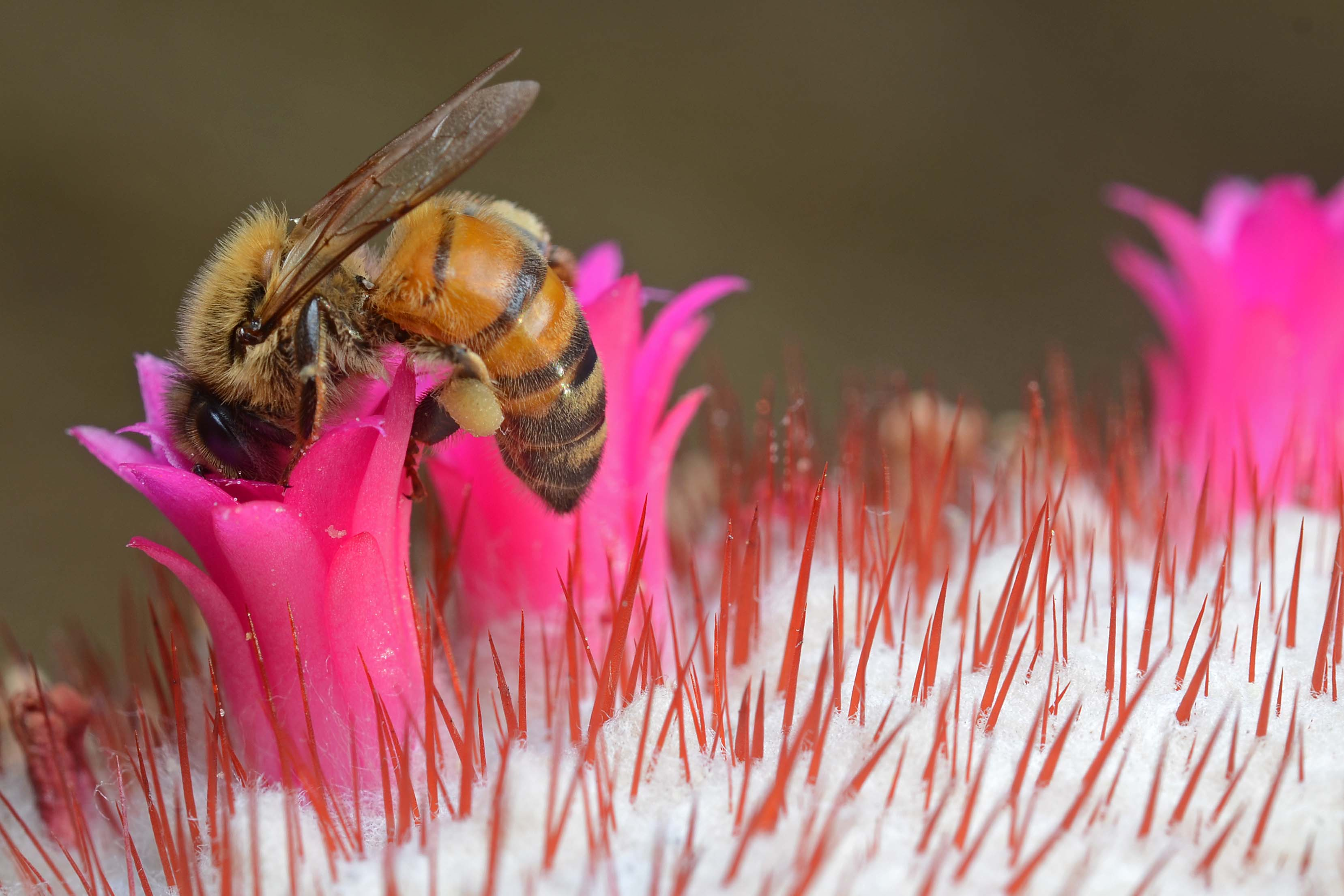 Cactaceae: Melocactus intortus; with honey bee (Apidae: Apis sp.) Guánica State Forest, Puerto Rico